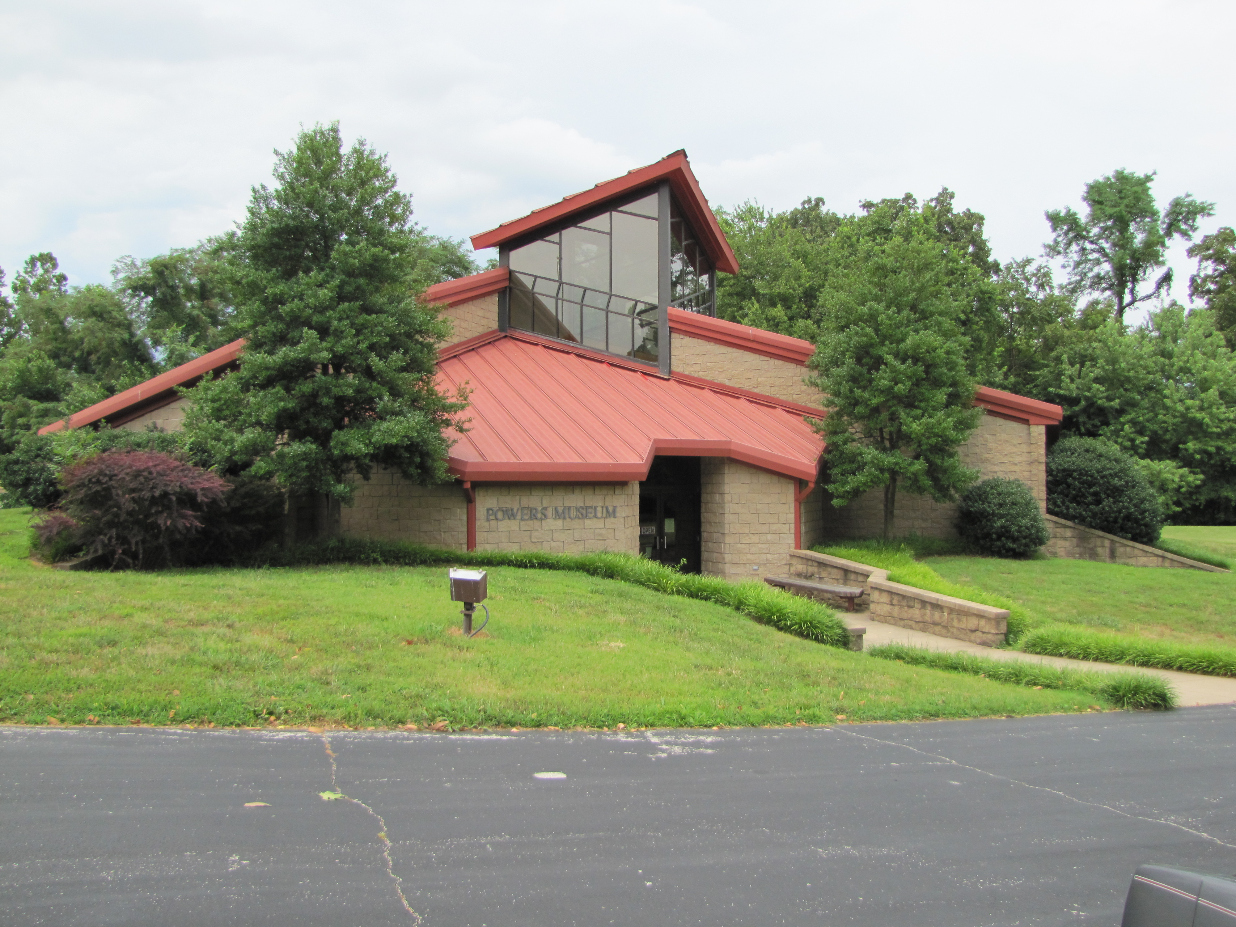 Front side of the Powers Museum in Carthage, MO